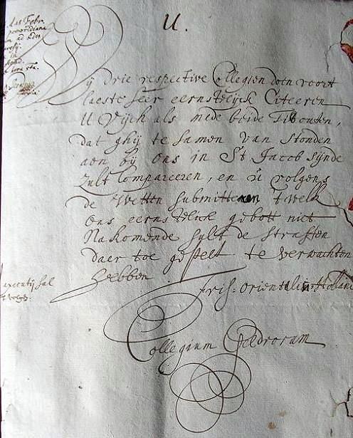 Picture of a notification letter of three Dutch nationes to three students that did refuse to become member of the secret societies, the collegia nationalia at the Groningen University, February 15, 1653